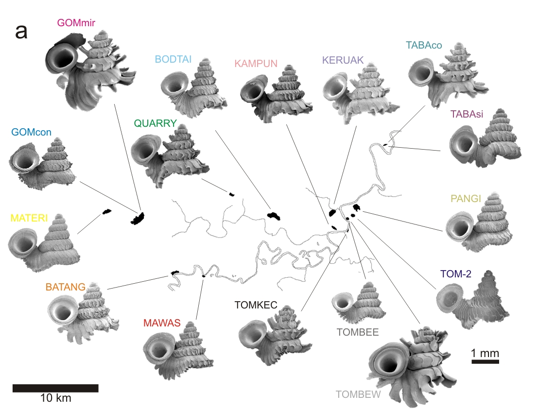 The Opisthostoma concinnum complex consists of 16 populations. All are restricted to small limestone outcrops along the lower Kinabatangan River in Sabah, Malaysian Borneo. The populations have been identified with five- or six-letter codes: BATANG (O. concinnum at Batangan), BODTAI (O. concinnum at Bod Tai), GOMcon (O. concinnum at Gomantong), GOMmir (O. mirabile at Gomantong), KAMPUN (O. concinnum at Batu Kampung), KERUAK (O. concinnum at Keruak), MATERI (O. concinnum at Materis), MAWAS (O. concinnum at Mawas), PANGI (O. concinnum at Pangi), QUARRY (O. concinnum at Quarry), TABAco (O. concinnum at Tandu Batu), TABAsi (O. simplex at Tandu Batu), TOMBEE (O. concinnum at the east side of Tomanggong Besar), TOMBEW (O. fraternum at the west side of Tomangong Besar), TOM-2 (O. concinnum at Tomanggong 2), TOMKEC (O. concinnum at Tomanggong Kecil). All populations are allopatric, except those from Gomantong, Tandu Batu, and Tomanggong Besar. From: Schilthuizen, M. et al., 2006. MICROGEOGRAPHIC EVOLUTION OF SNAIL SHELL SHAPE AND PREDATOR BEHAVIOR. Evolution, 60(9), 2006, pp. 1851–1858.